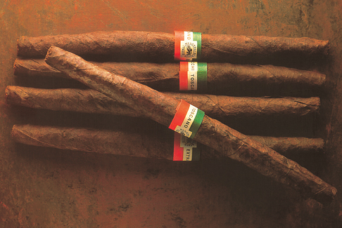 cigar